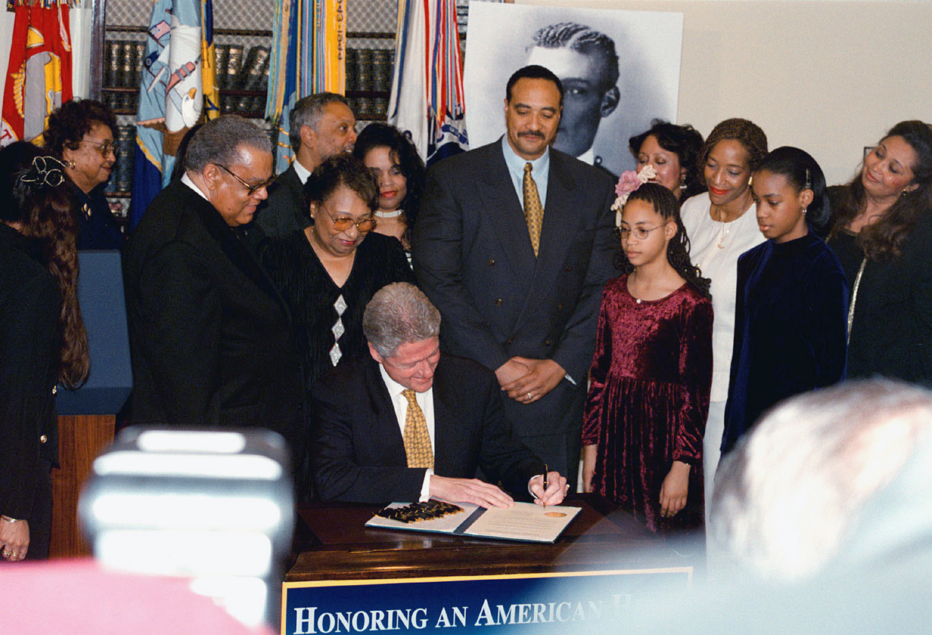 US President William Jefferson Clinton (center) is surrounded by the family members of US Army First Lieutenant (1LT), Henry O. Flipper, the first African American to graduate from the US Military Academy at West Point, as the President signs a document pardoning 1LT Flipper for a 1882 Army conviction for conduct unbecoming an officer and a gentleman. The dishonorable discharge accompanying the conviction had been changed to honorable in 1976.